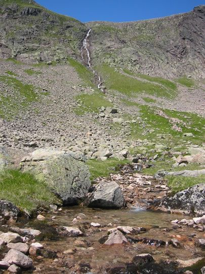 Falls of Dee, An Garbh Choire, Cairngorms, Aberdeenshire.